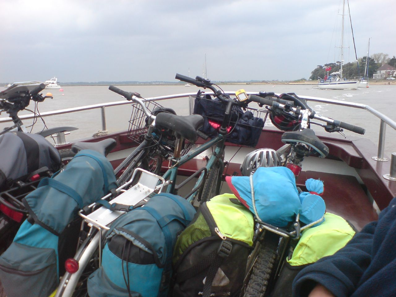 The Bawdsey Ferry loaded with cycles